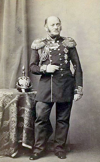 Filosofov, Aleksey Illarionovich